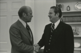 The photo contact sheet, identified as B1710 by the White House Photographic Office (WHPO), is housed at the Gerald R. Ford Presidential Library, a branch of the National Archives and Records Administration (NARA). This file is a 200 dpi photo contact sheet having images from roll of film B1710 of the August 9, 1974 - January 20, 1977 Gerald R. Ford White House Photographic Office Series A0001-A9999 and B0001-B2886 photographs. The date on the photo contact sheet is the date the roll of film was processed, not necessarily the date the photographs were taken. See table below for additional details.